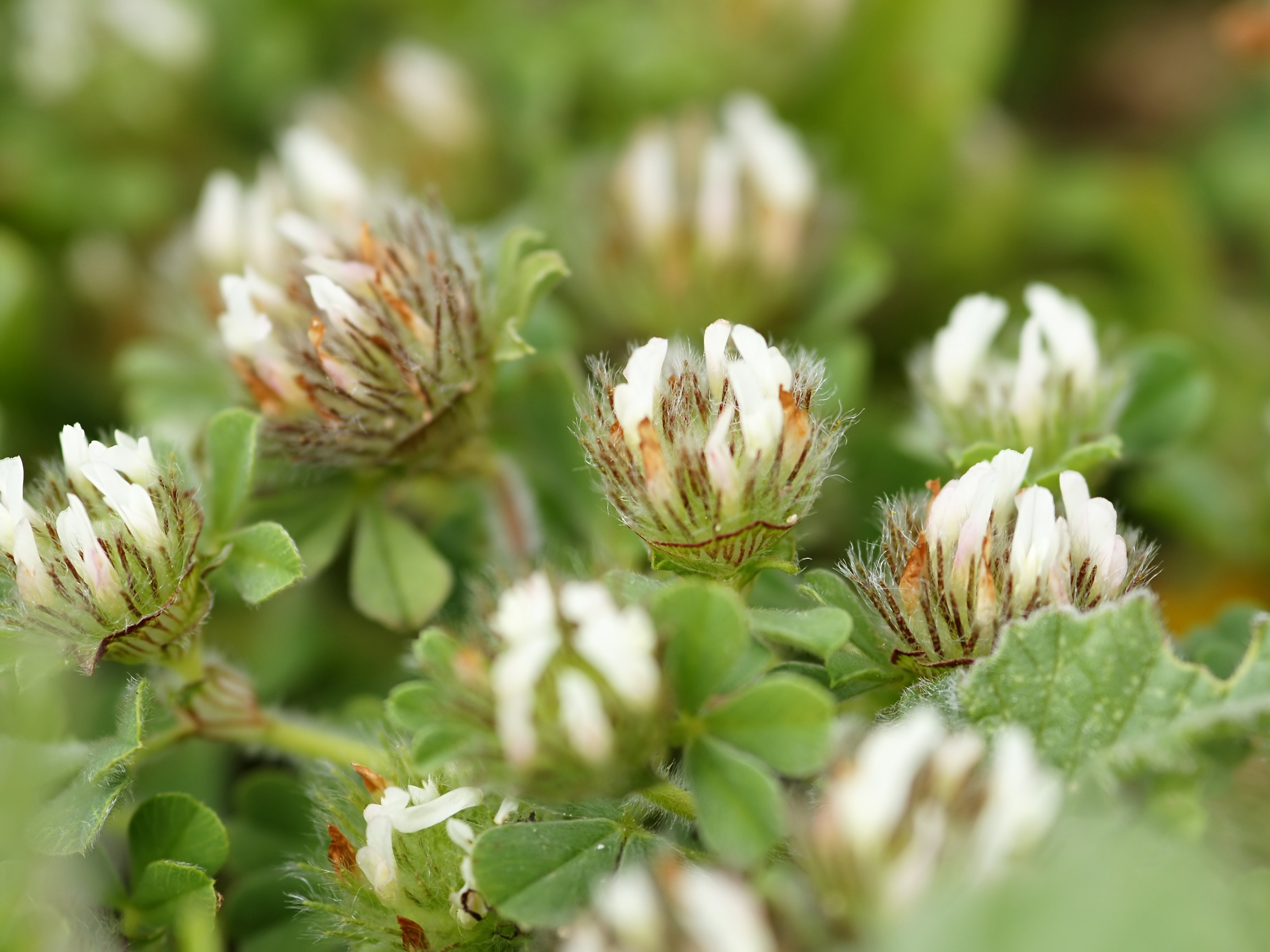 Cupped Clover near Cala Ses Salinas, Mallorca.